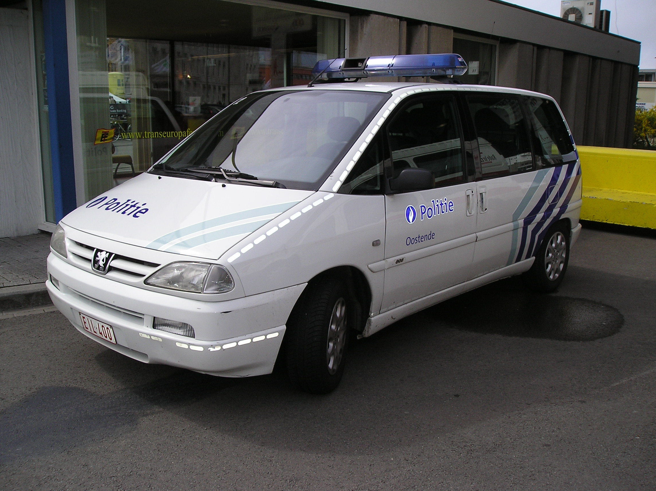 Police car in Ostend, Belgium, near the ferry terminal